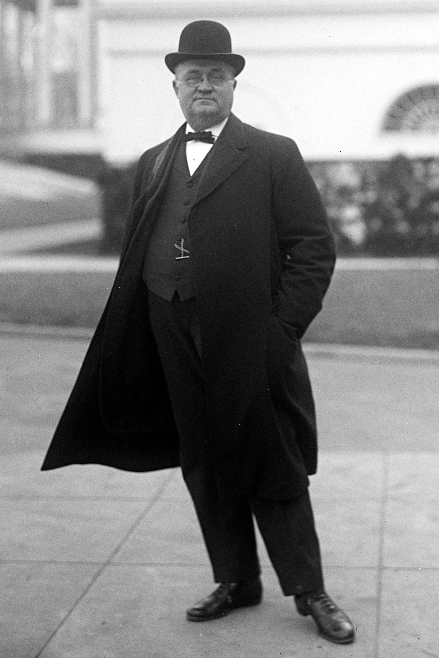 John Hoover Rothermel, US Representative from Pennsylvania